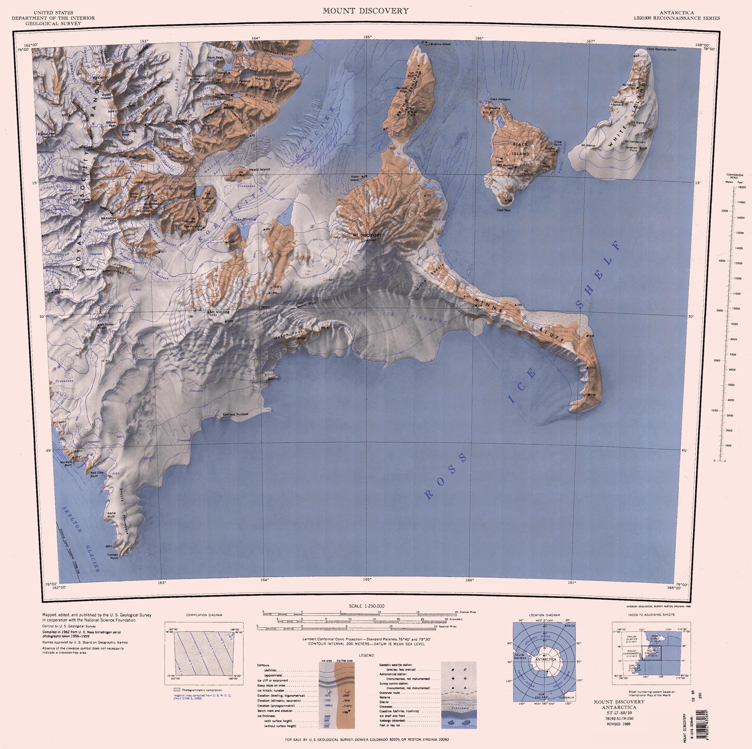 Map of Antarctica by the United States Antarctic Resource Center of the US Geological Society.